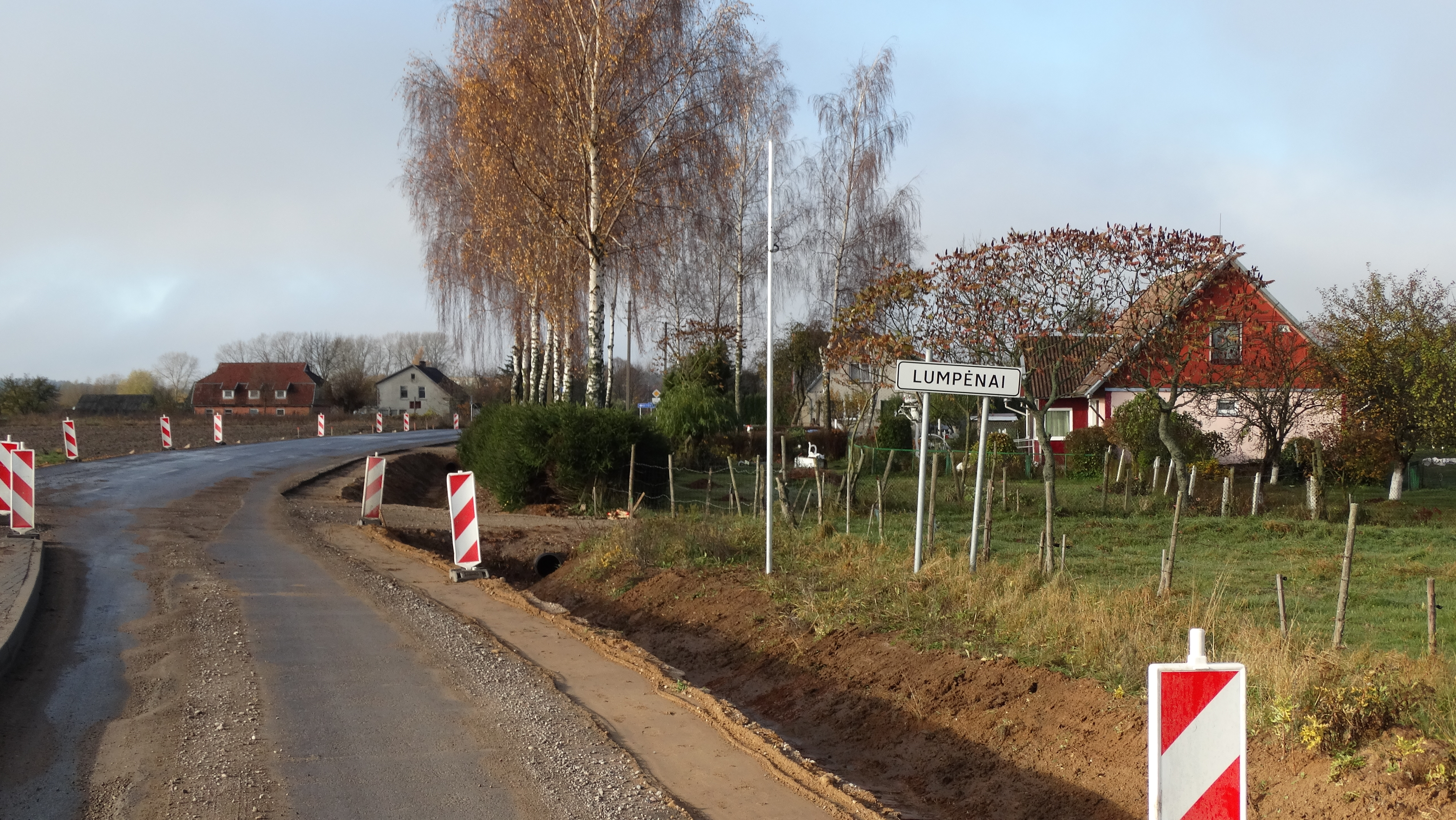 Lumpėnai, Pagėgiai Municipality, Lithuania